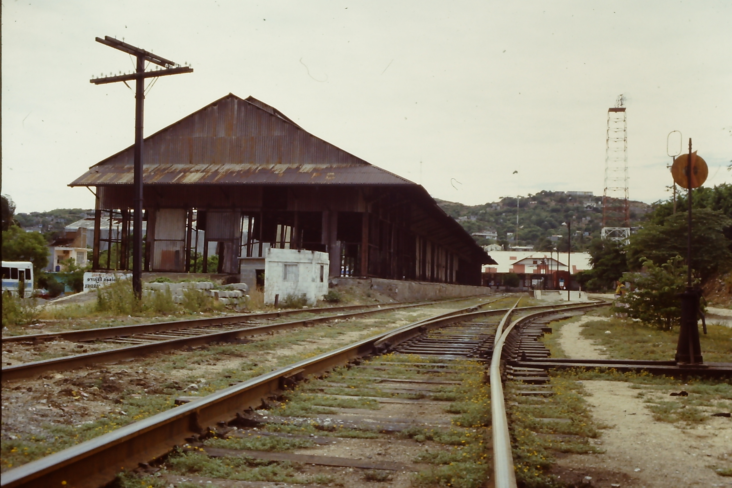 Salina Cruz, Mexico, Trains Station, 1997